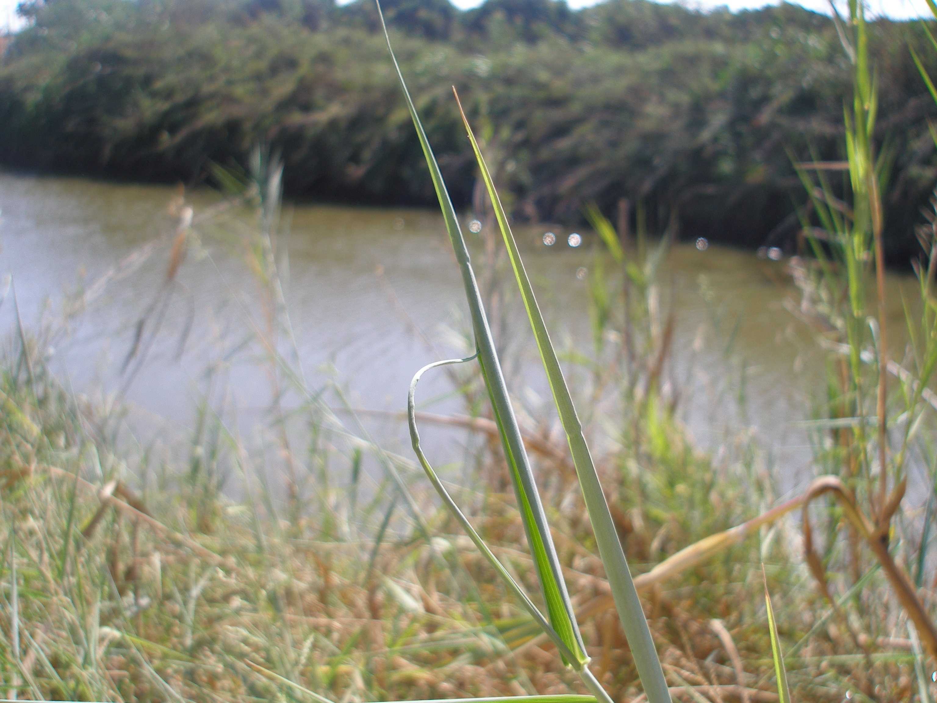 Alexander Stream, israel.